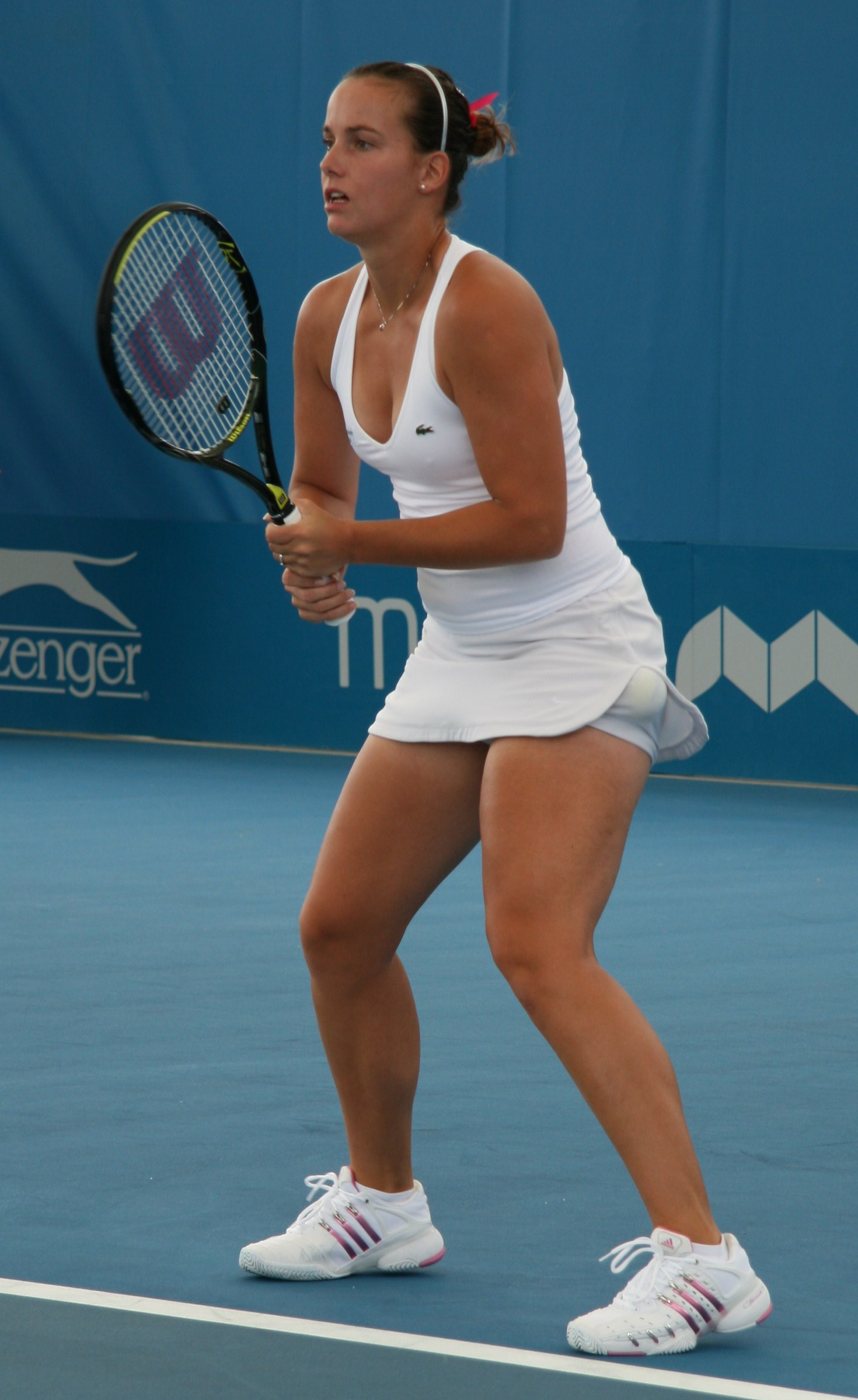 Jarmila Gajdosova at the 2009 Brisbane International